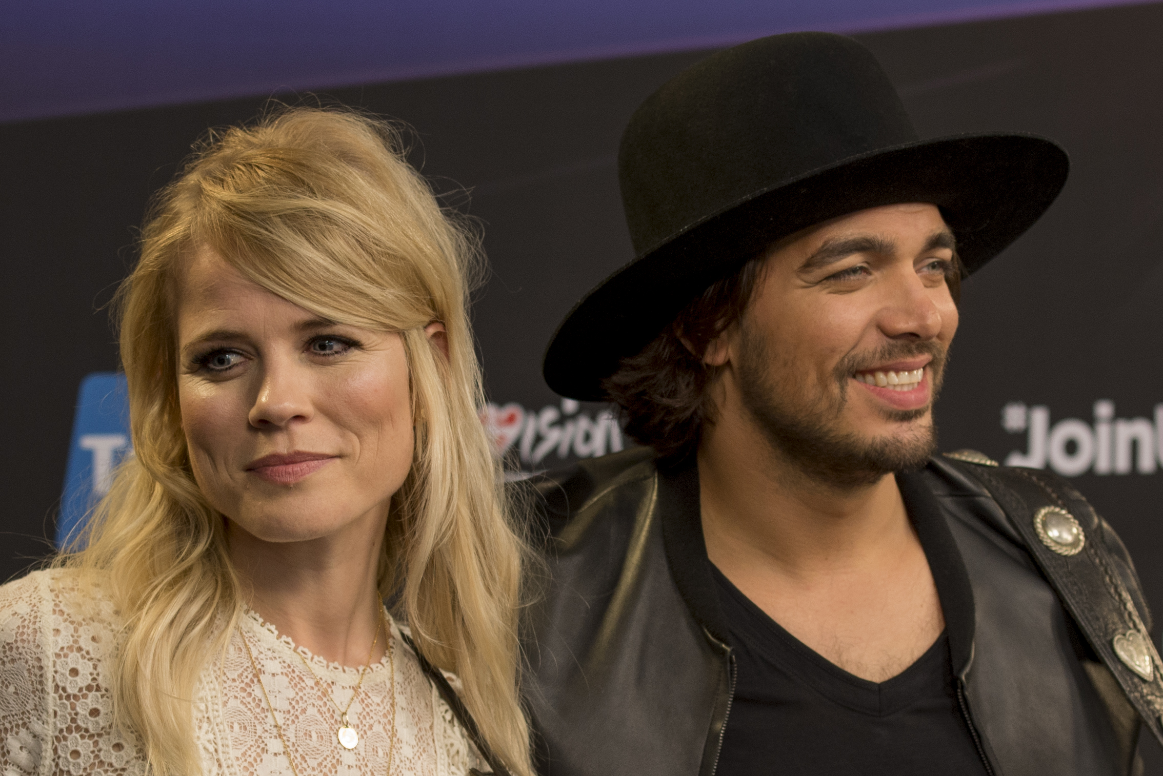 Q15229258 at a Meet & Greet during the Q5354210 Q1748. (Help translate this text)